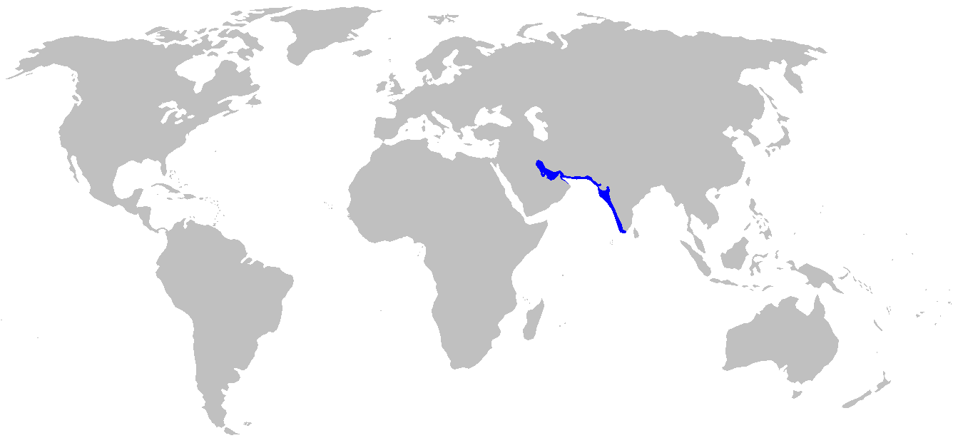 Distribution map for Chiloscyllium arabicum